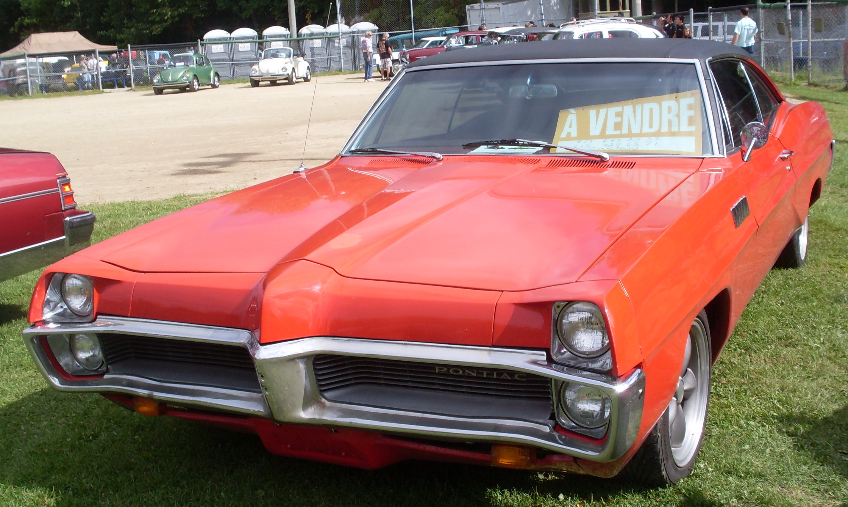 1967 Pontiac 2+2 & Volkswagen Beetles photographed in Rigaud, Quebec, Canada at the 2013 Rassemblement Rigaud car show.